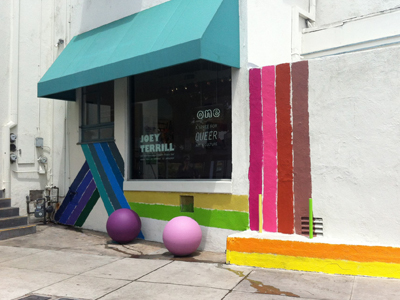 ONE Archives Gallery & Museum, 626 North Robertson Boulevard, West Hollywood, CA 90069